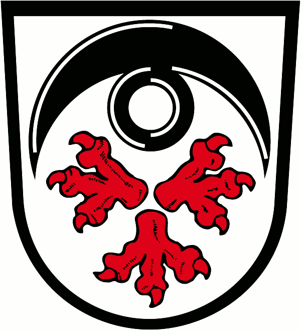 Coat of arms of the municipality of Jettingen-Scheppach